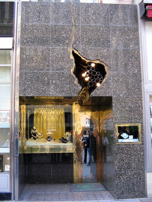 The Schullin jewelery store by Hans Hollein on the Graben in Vienna, Austria.